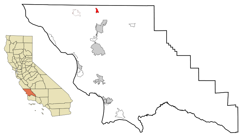 The part that is colored red is San Miguel, San Luis Obispo County, California